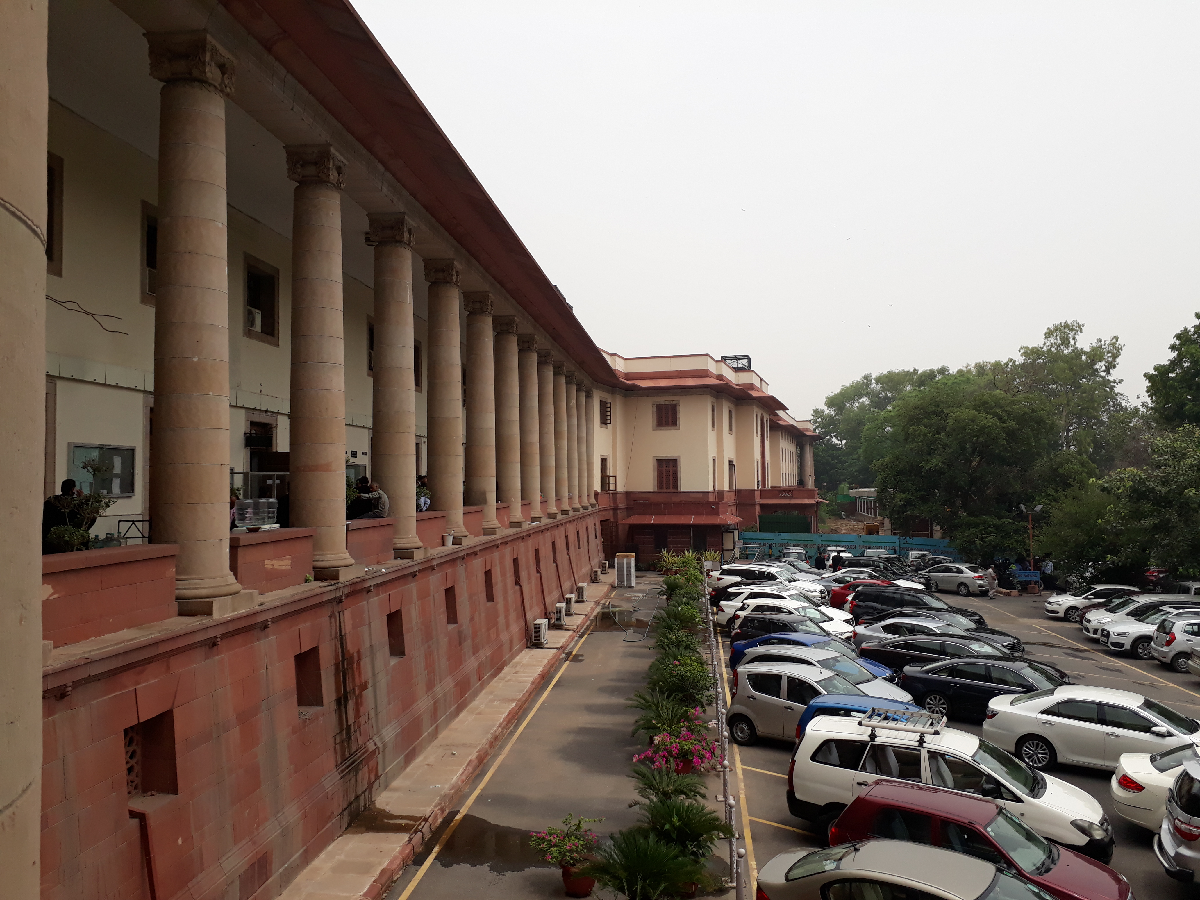 Building of The Supreme Court of India, New Delhi